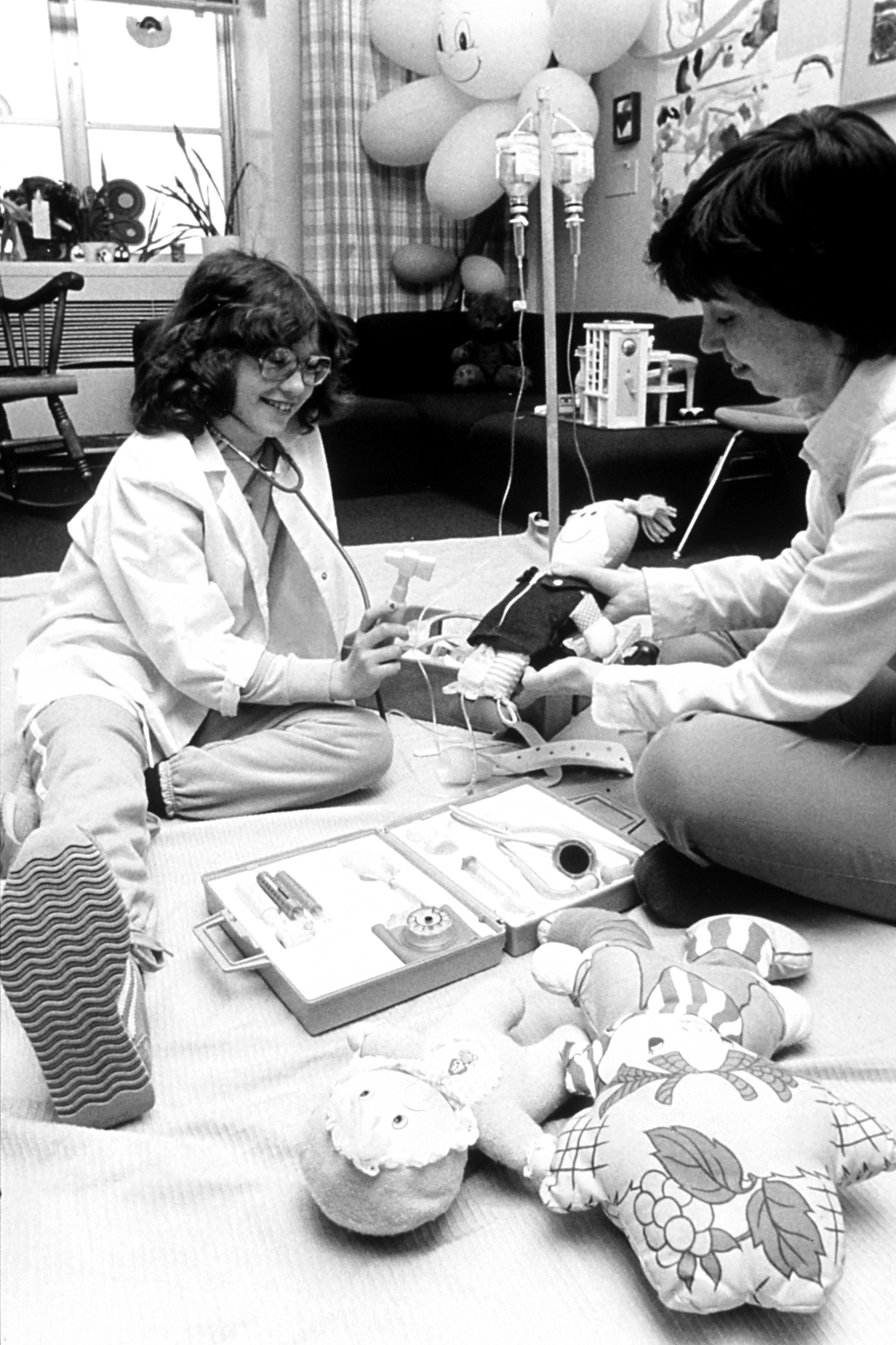 Title Chemotherapy Education Description A female patient and nurse, both seated on the floor. The female nurse is teaching the girl about procedures and techniques associated with chemotherapy. Topics/Categories People -- Adult People -- Child People -- Health Professional and Patient Treatment -- Chemotherapy Type B&W, Photo Source National Cancer Institute